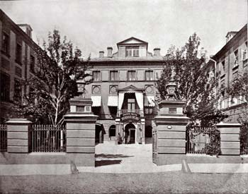 The building, which housed the editorial "Moscow Gazette", 1882